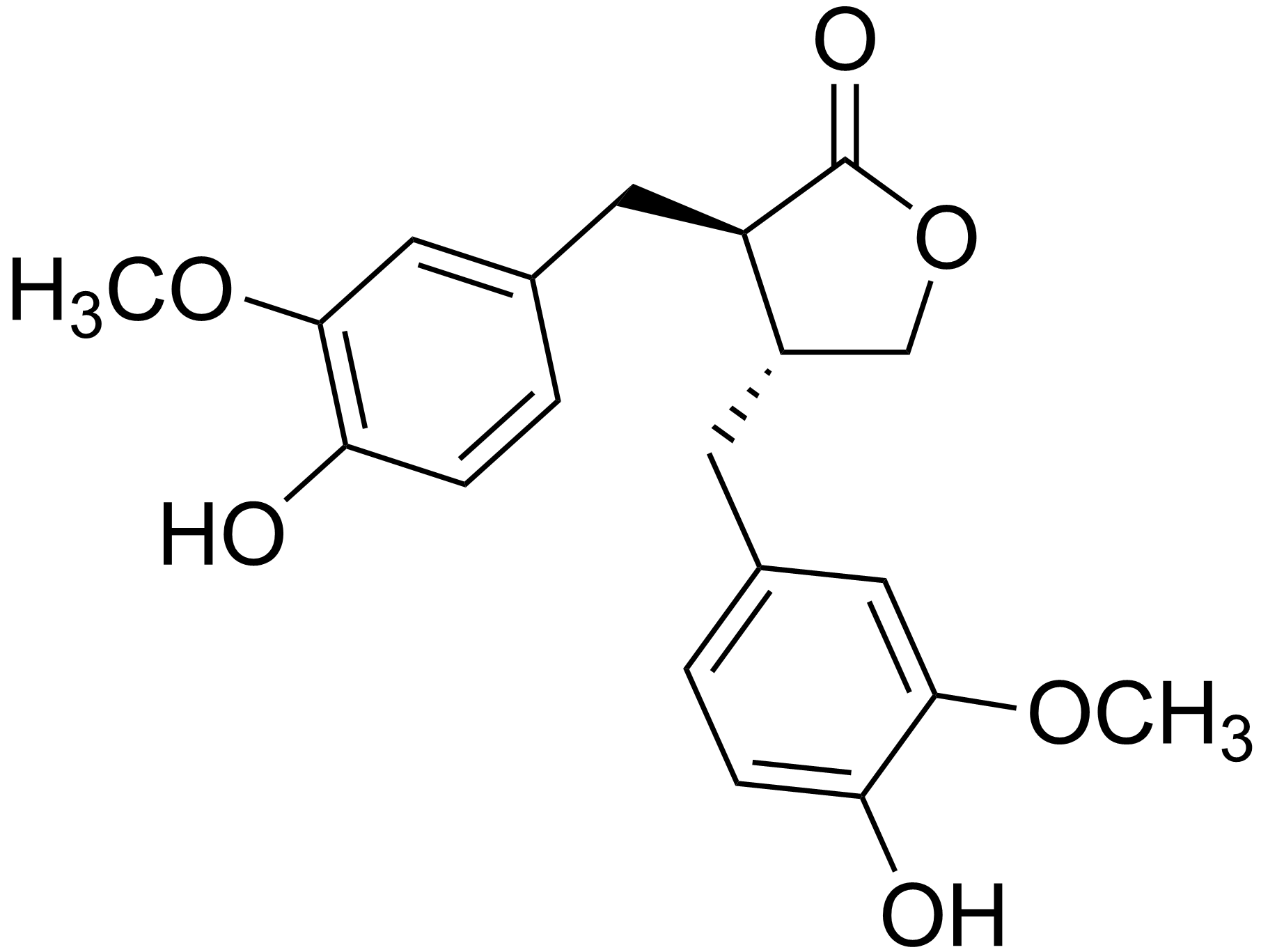 Chemical structure of Matairesinol